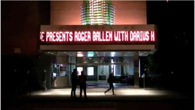 On Monday November 9, 2009 The School of Visual Arts in New York City hosted a conversation between Roger Ballen and Darius Himes. Here is part of Darius Himes's Introduction to Roger Ballen: “From any objective viewpoint, Roger Ballen operates as a one-man school of photography. For more than two decades, he has developed a style of image-making that is firmly rooted in the documentary tradition of the great mid-century storytellers, but which has consistently taken the notion of a photographic “document” as a mere starting point for an ever-deepening exploration into the human subconscious. Roger Ballen grew up in New York under the familial influence of the Magnum clique of photographers; his mother ran the New York office of the famous agency for many years when he was a child, and young Roger considered Henri, Bruce, and Elliott as so many uncles and tutors. He left the City behind—and the safety of that world—immediately after university, spending 5 years on the road, traveling to such far-flung places as Istanbul and Papua New Guinea. Eventually he settled in South Africa and found work according to his formal training, as a geologist. His travels to the back-country of that country, and in particular around Johannesburg, provided occasion for a continued sustained photographic exploration, which his first two published books of photographs bear out. #REDIRECT ...More